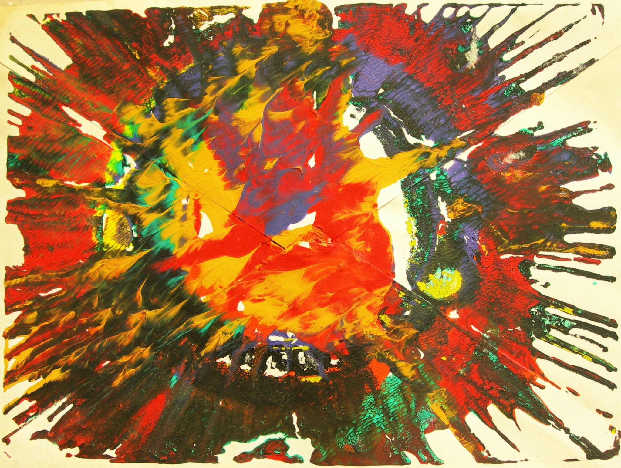 Spin Art painting on envelope, Briefumschlag